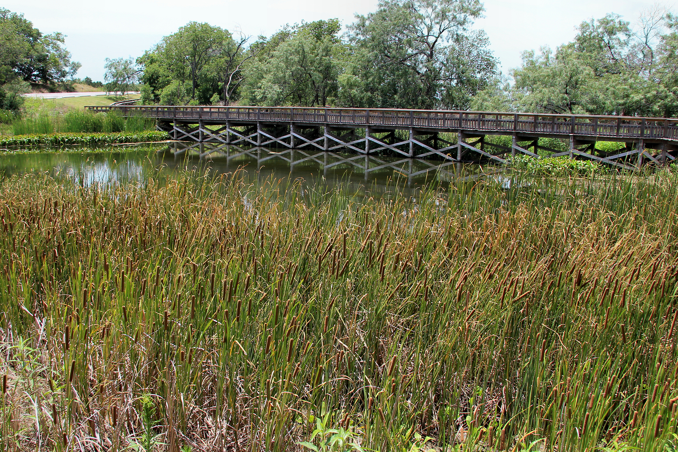 The perch pond in Cedar Hill State Park in Cedar Hill, Texas, United States.